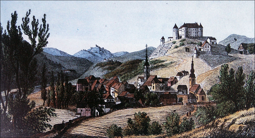 Sevnica Castle